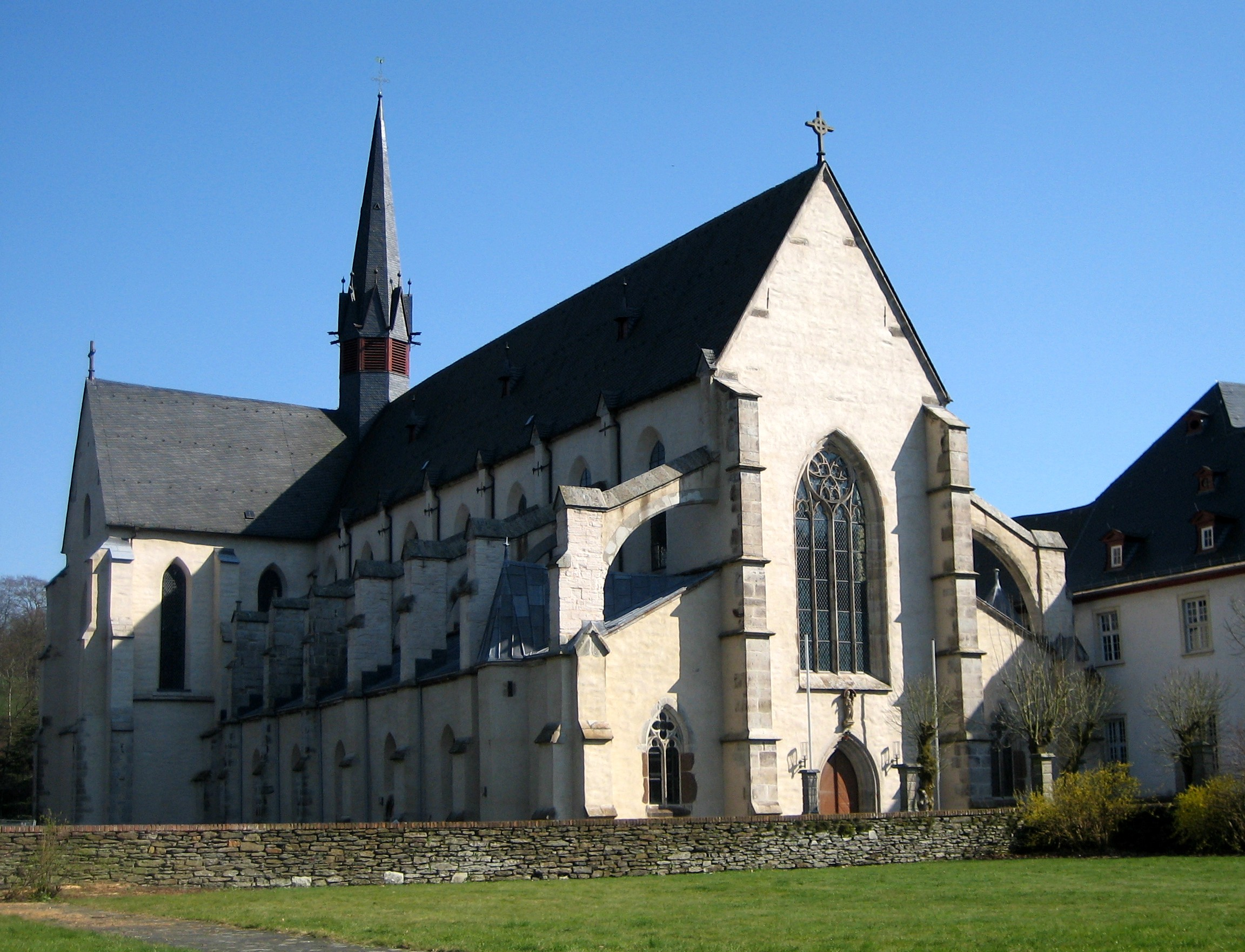 Church of the Cistercian abbey of Marienstatt from north-west